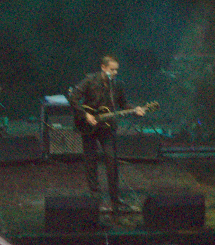 Spanish musician Santiago Auserón in concert, summer de 2006. During his "Las malas lenguas" L.p. tour.